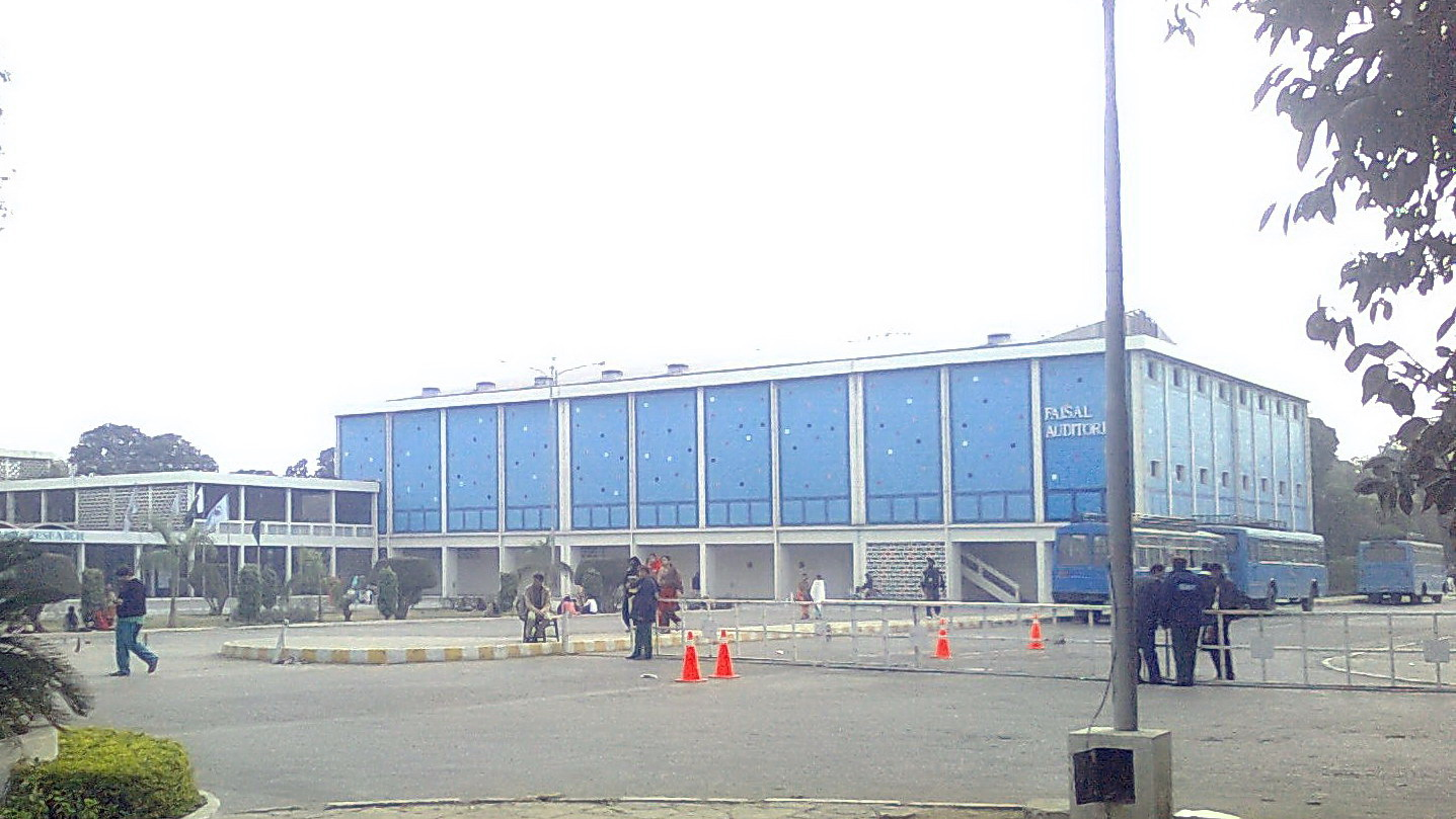 University of the Punjab- main auditorium